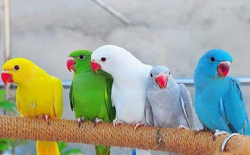 Several colour mutations of pet Rose-ringed Parakeets.